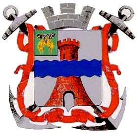 Poti coat of arms within the Russian Empire